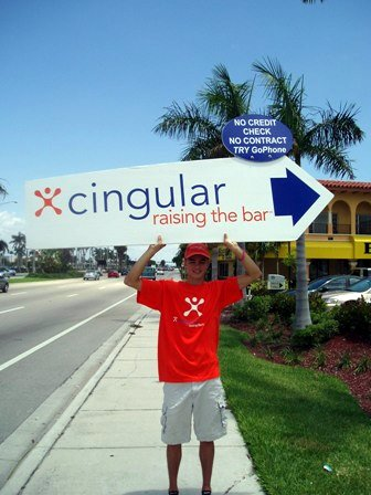 a human directional holding a sign for Cingular